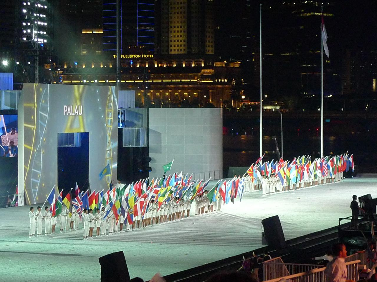 Opening Ceremony of Singapore YOG 2010